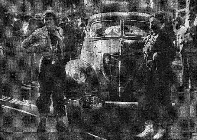 Entry #33 in the 1938 Monte Carlo was a Matford (based on Ford V8) entered by Germaine Rouault (left in picture) and Suzanne Largeot (to the right; despite the image title stating that the other lady is "mme d'Herlique"). They ended 7th overall.[1]